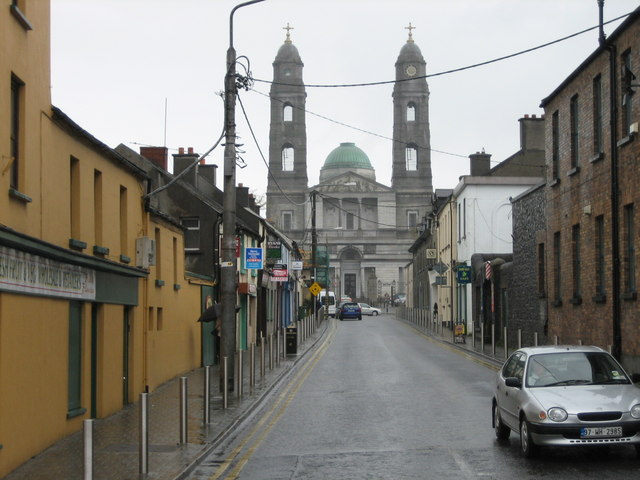 The Cathedral Church of Christ the King, Mullingar